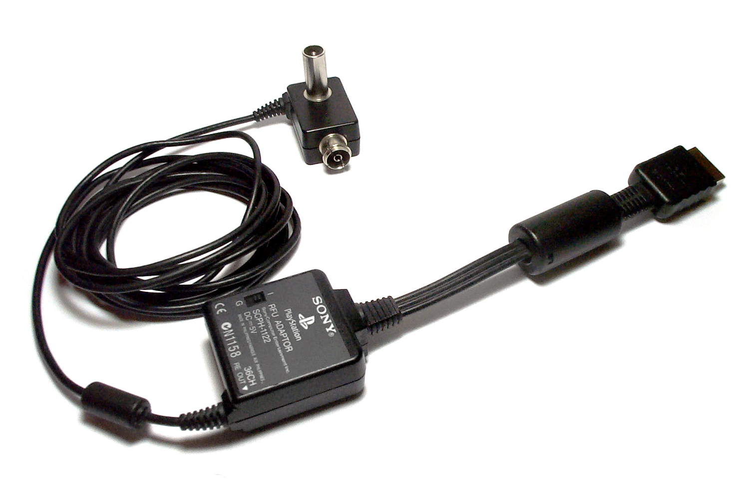 PlayStation RFU Adapter (SCPH-1122; PAL version) as bundled with a SCPH-9002 (PAL) PlayStation console. Also compatible with the PlayStation 2 and PlayStation 3.